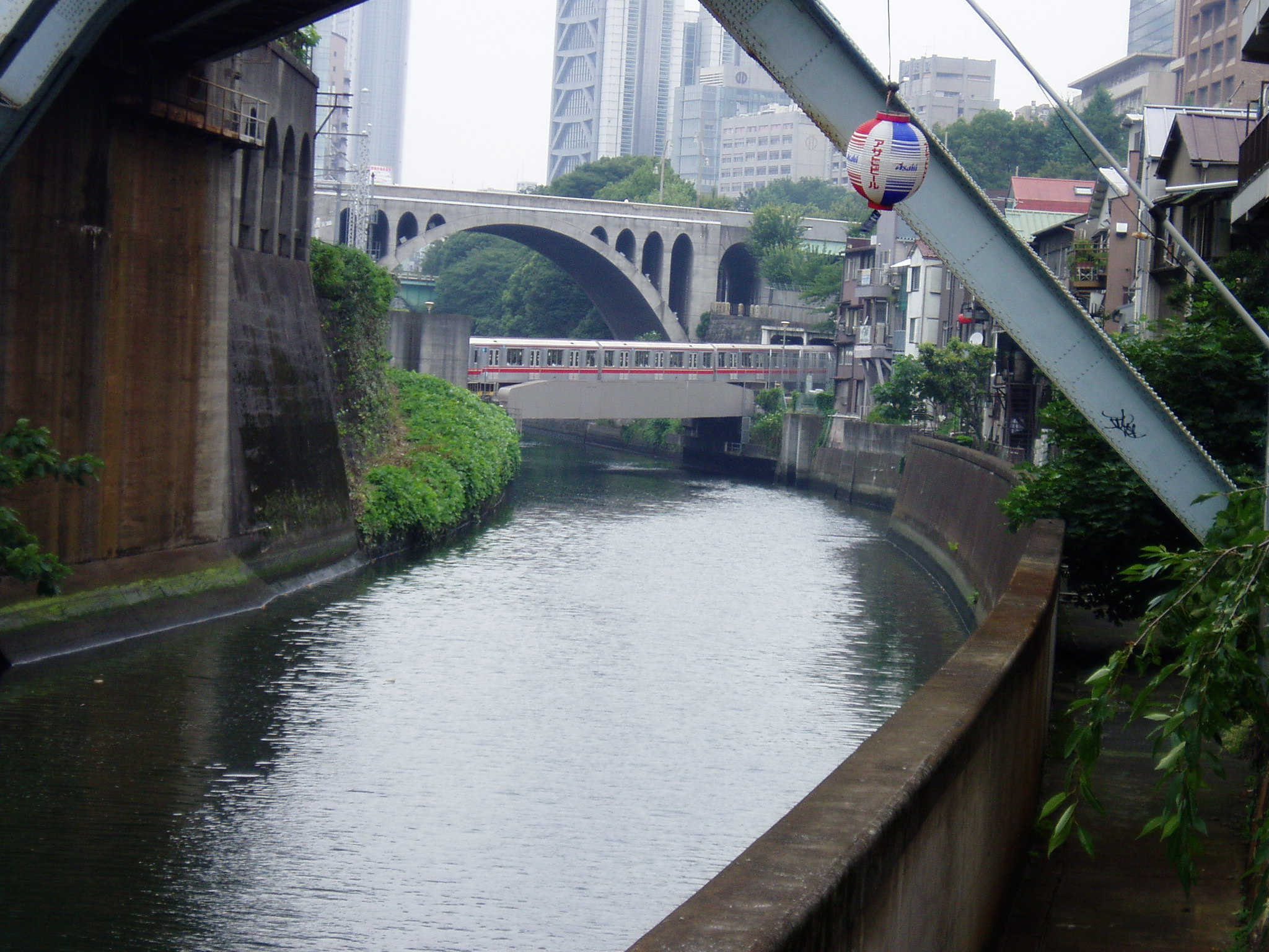 A train of Tokyo Metro Marunouchi Line above Kanda River.